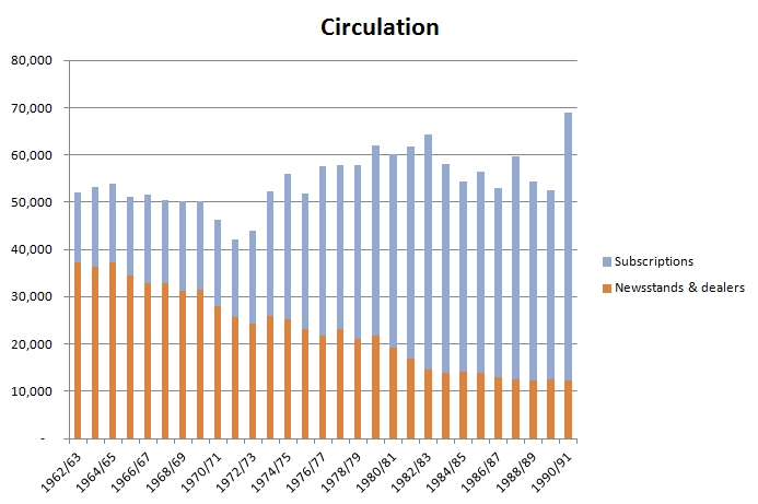 Graph of circulation figures for The Magazine of Fantasy & Science Fiction from 1962 to 1990.